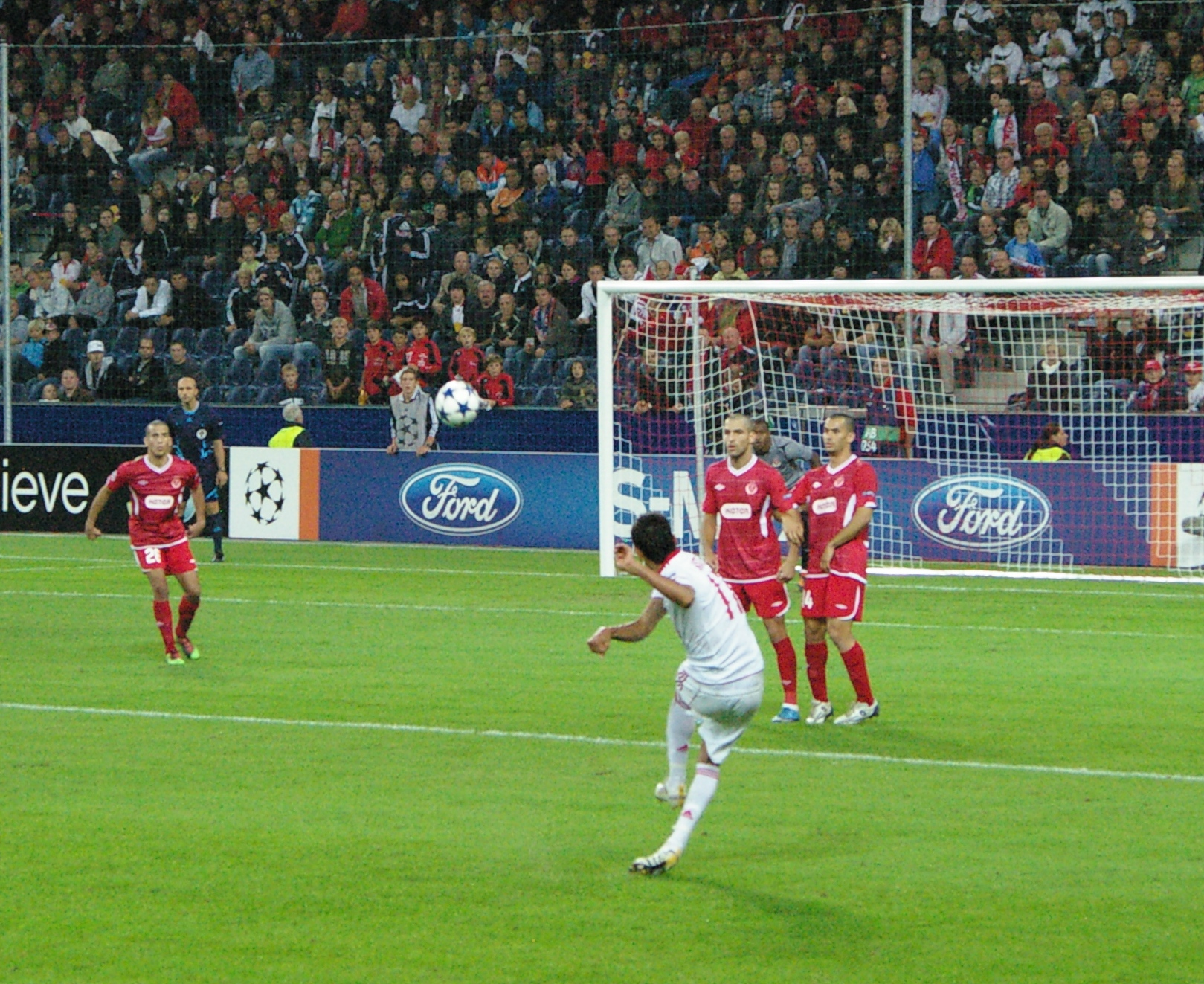 Gonzalo Zarate is doing a free kick